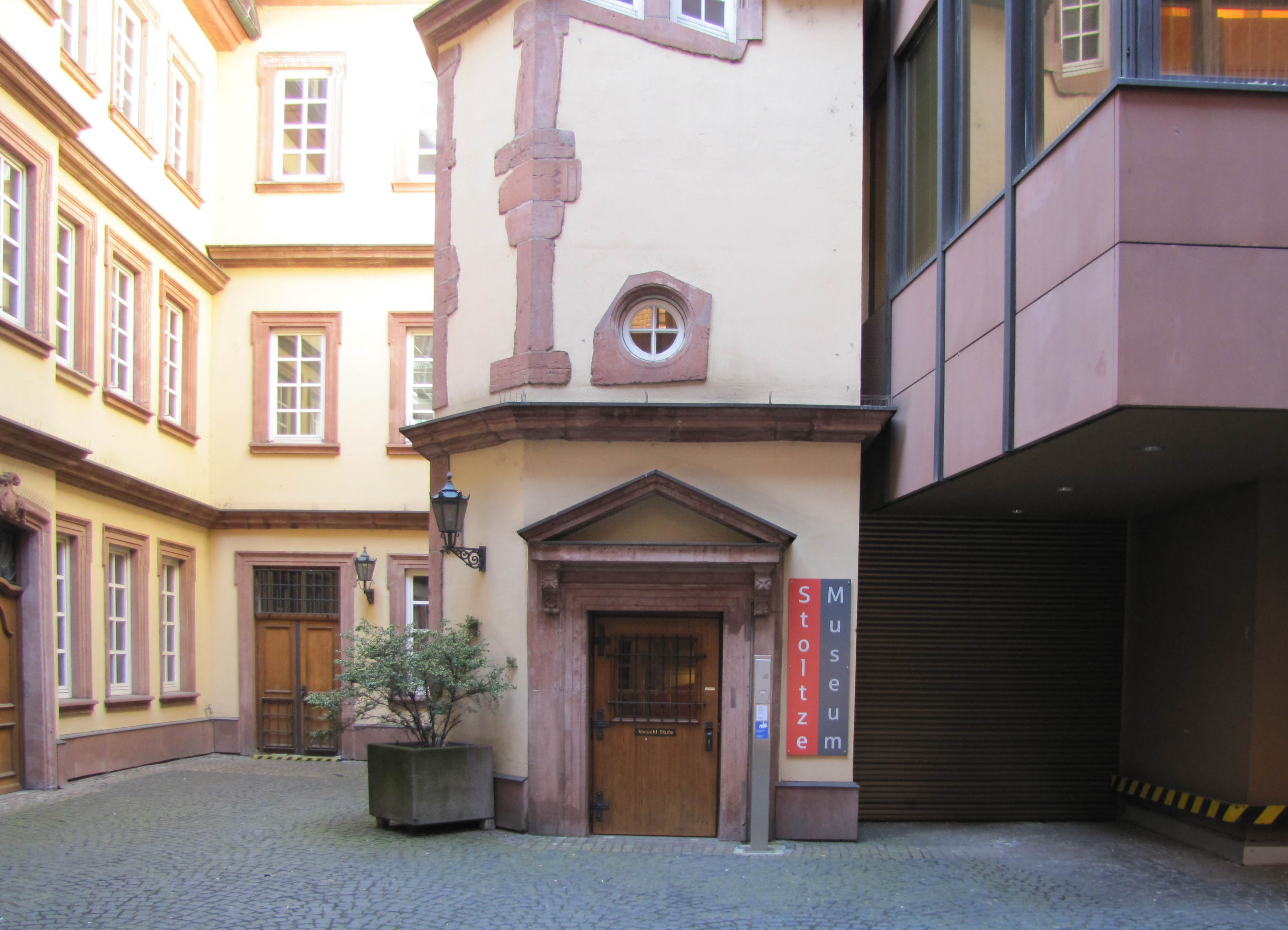 "Stoltze-Museum" in Frankfurt am Main, Germany.